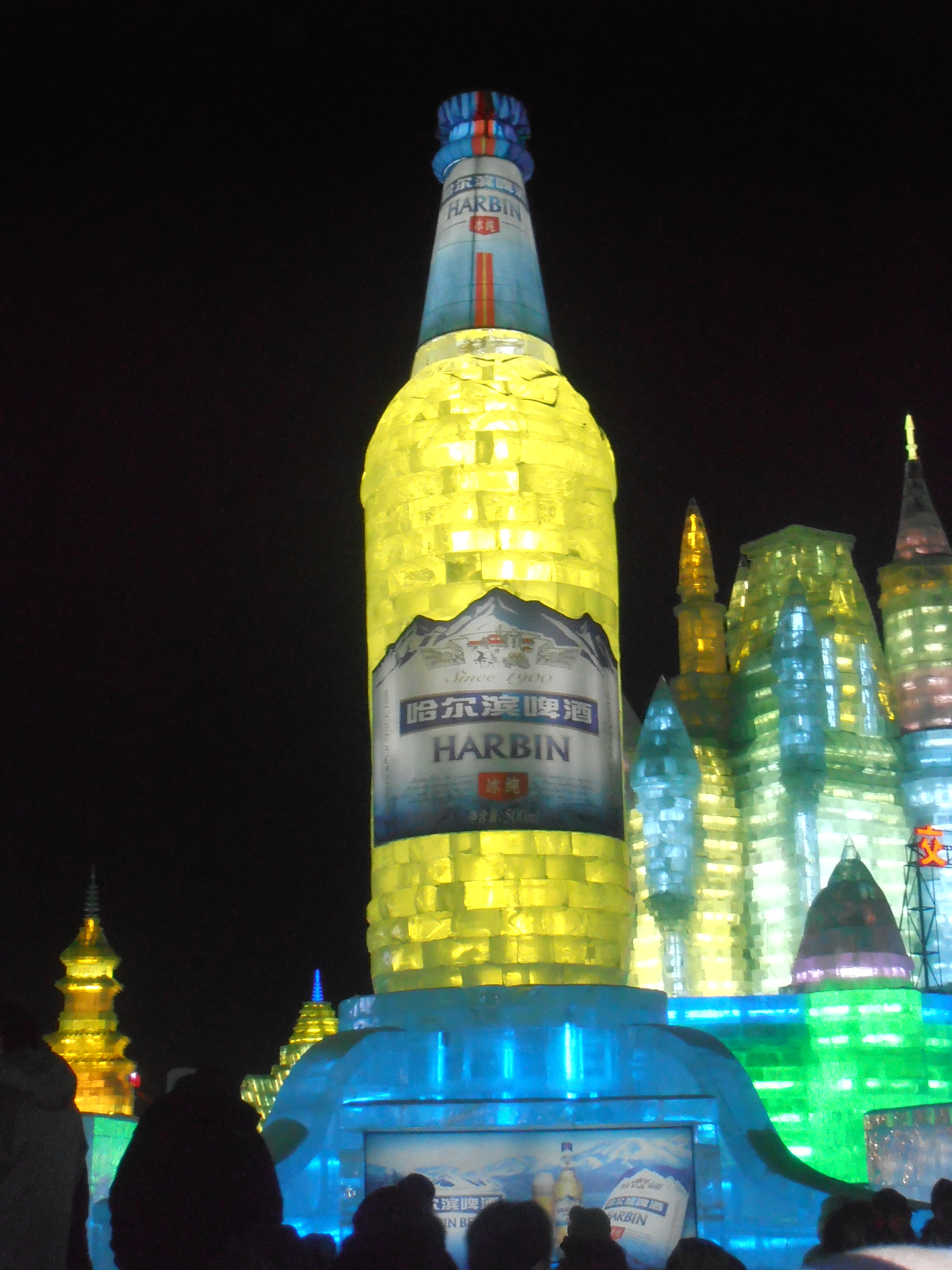 Ice Snow World Harbin Beer